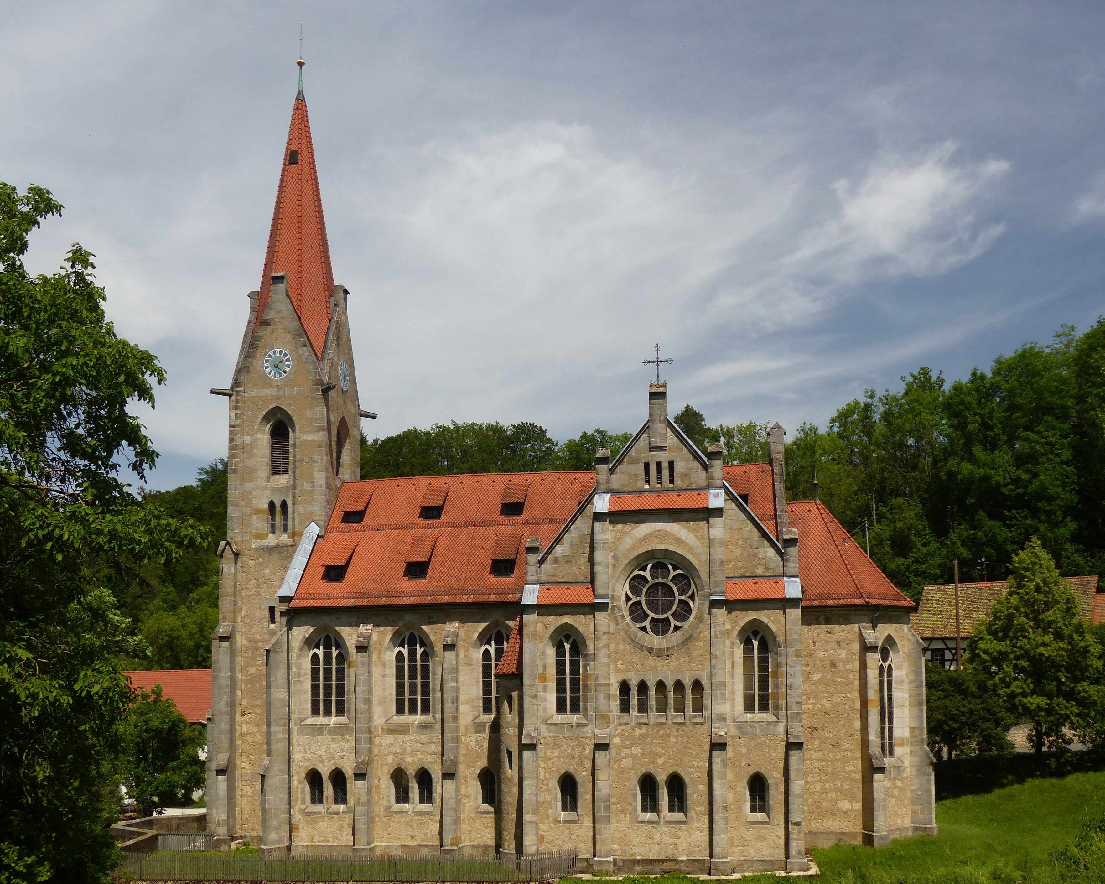 The parish church St. Matthäus in Hetzelsdorf, a district of the municipality of Pretzfeld